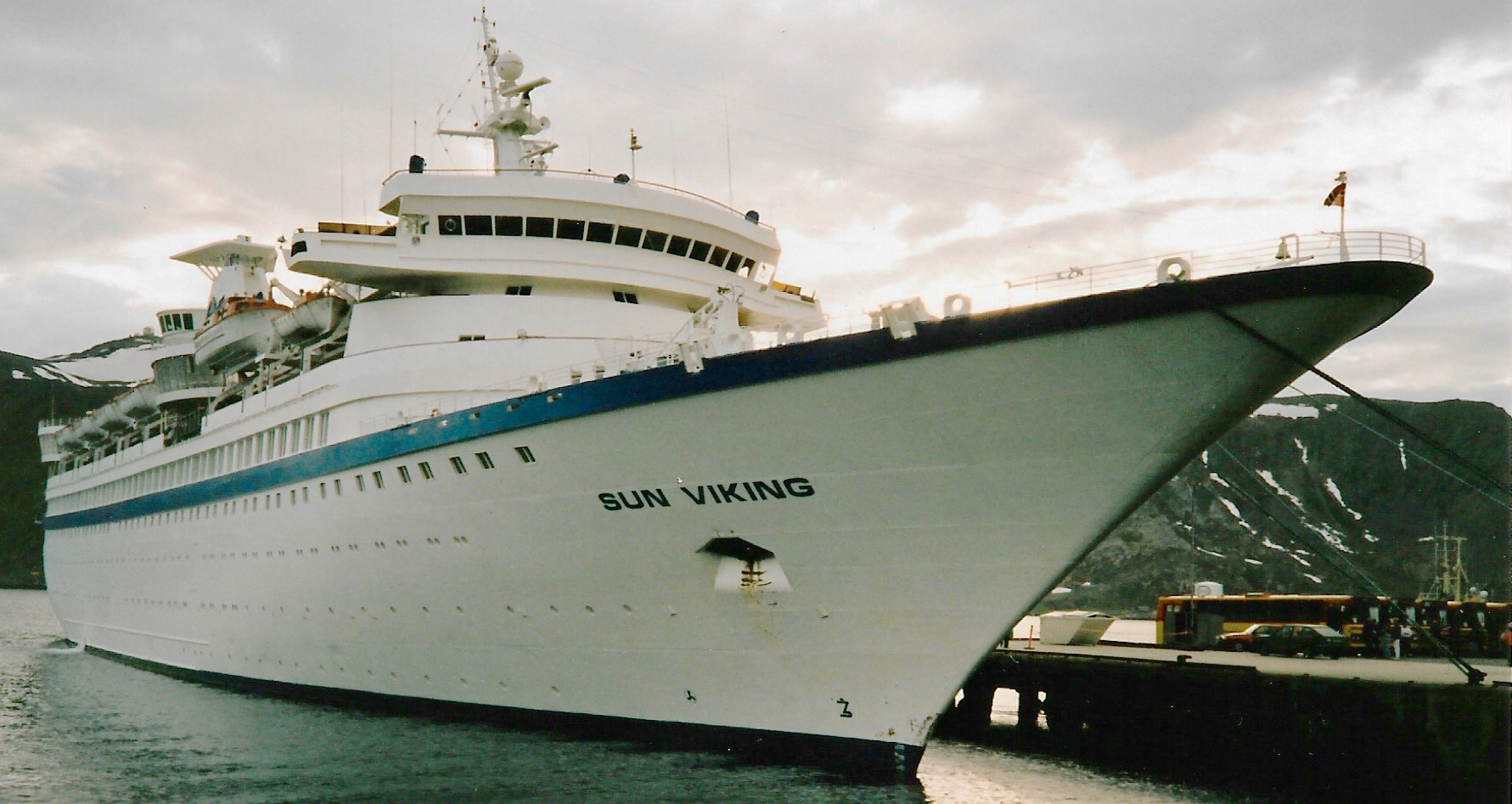 Sun Viking marred in Nordkapp, Norway July 1993